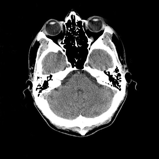 Normal CT scan of the head; this slice shows the cerebellum, a small portion of each temporal lobe, the orbits, and the sinuses.Routine Head Scan